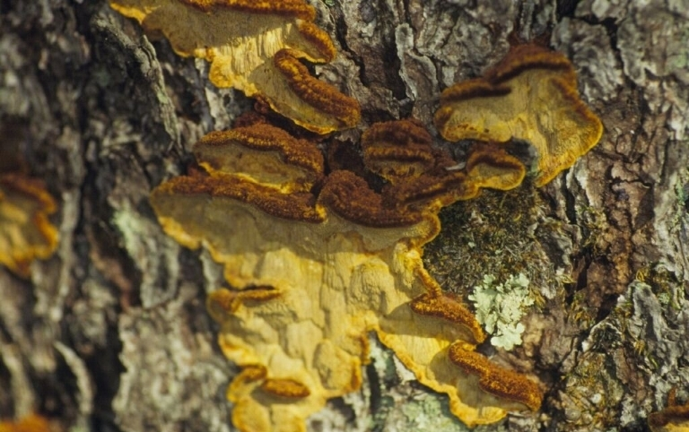 The plant pathogen Phellinus pini also known as red heart of pine